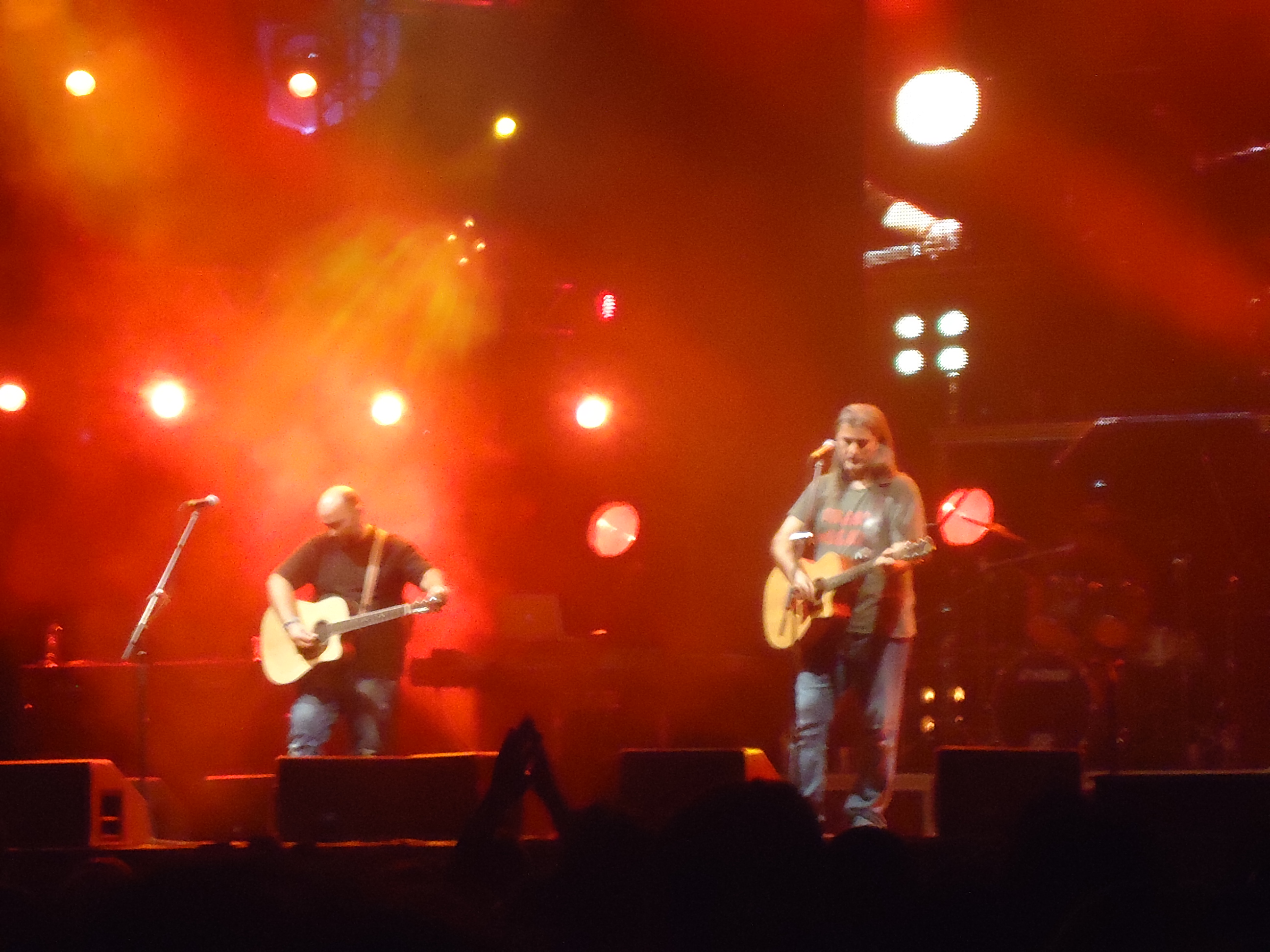 Pyx Lax performing in Patras Pampeloponnisiako stadium, September 2011